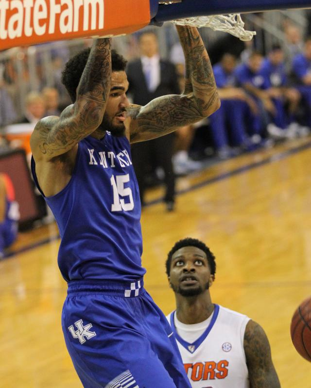 Dunk by Willie Cauley-Stein